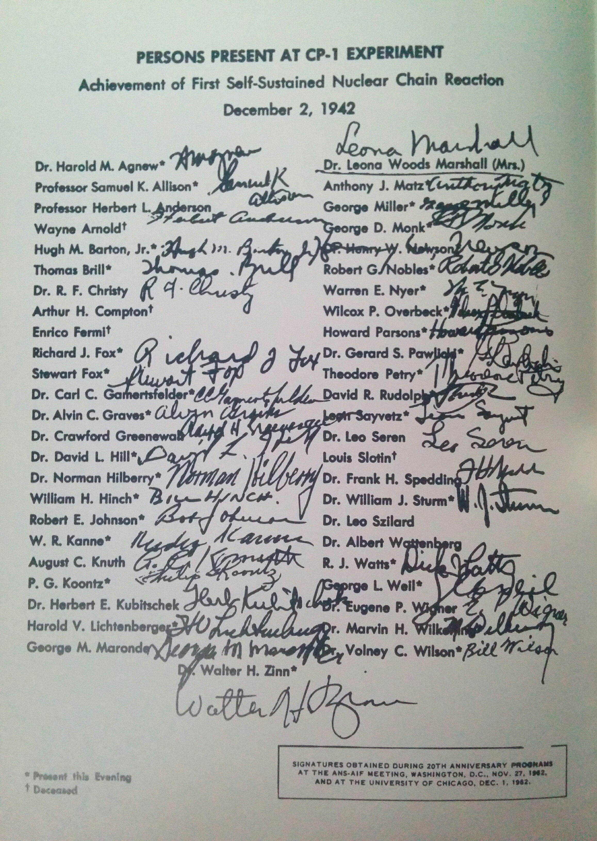 List of people present when Chicago Pile-1 first went critical